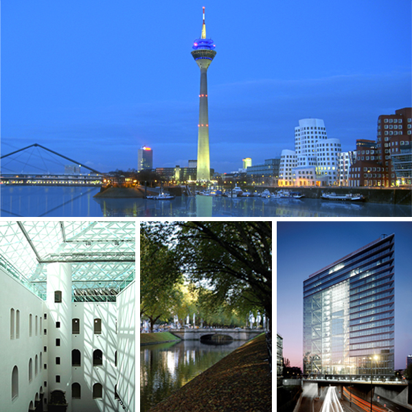 various views of Düsseldorf, Germany: 1) large image: Medienhafen at dusk; bottom row from left to right: 2) Ständehaus of Kunstsammlung Nordrhein-Westfalen, 3) Königsallee, 4) Stadttor at dusk